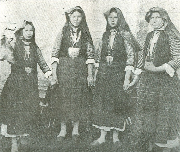 Women from Drama in national costumes, beginning of XX c.